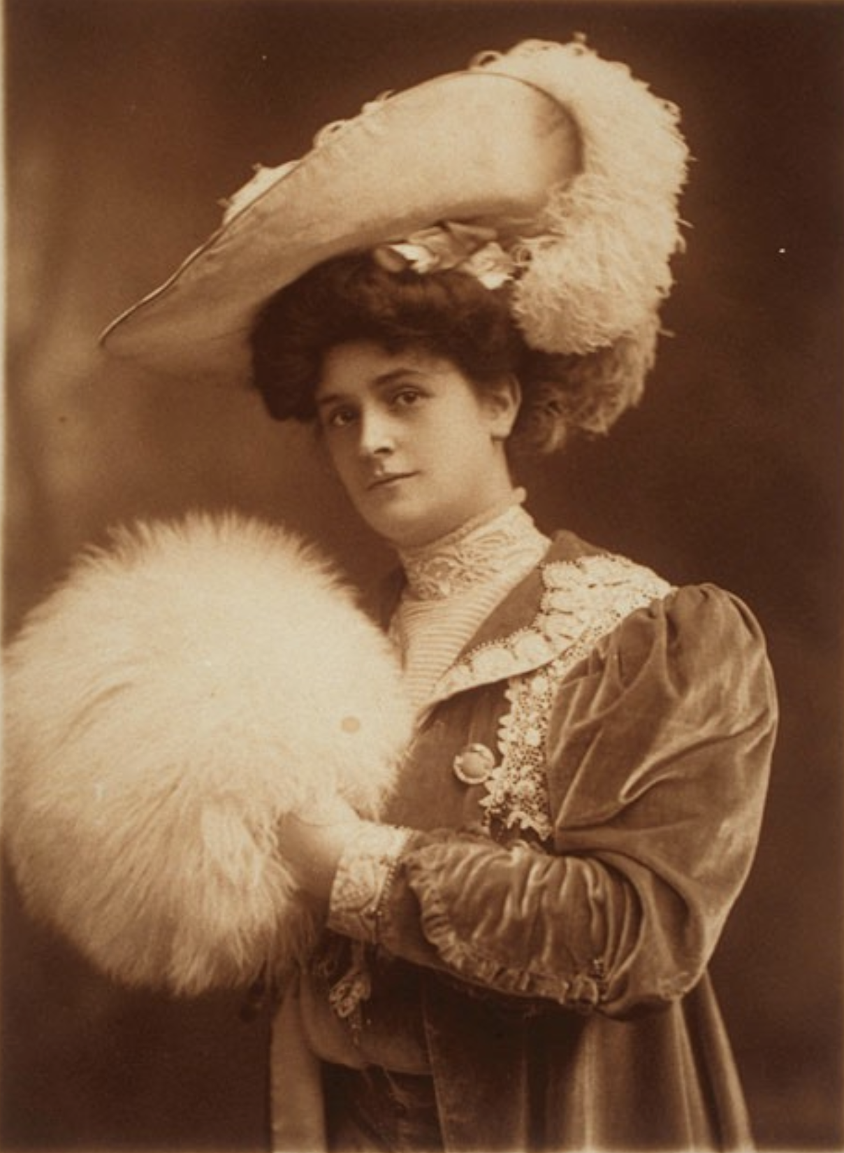 Portrait of Harriet Burton Laidlaw wearing a hat and muff, by Aimé Dupont. Courtesy of Schlesinger Library on the History of Women in America, Radcliffe Institute.